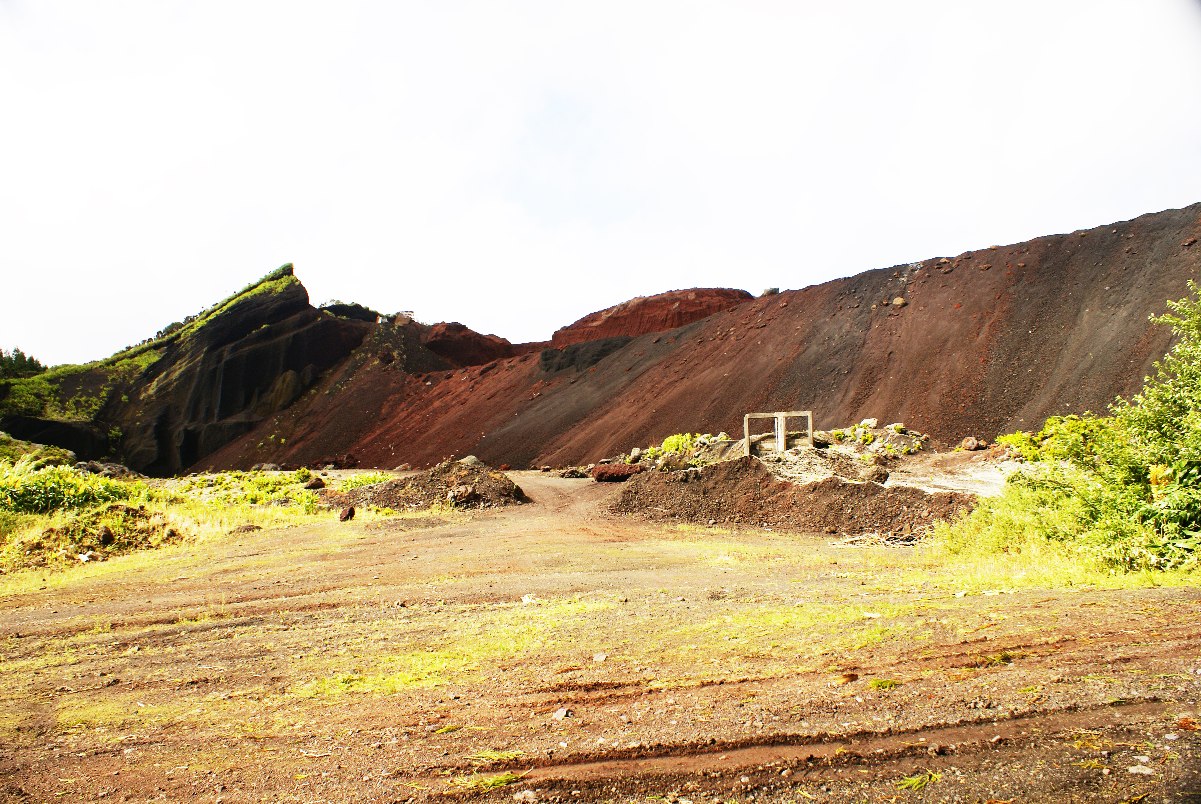 Bagacinas de diferentes cores, ilha do Faial, Açores, Portugal